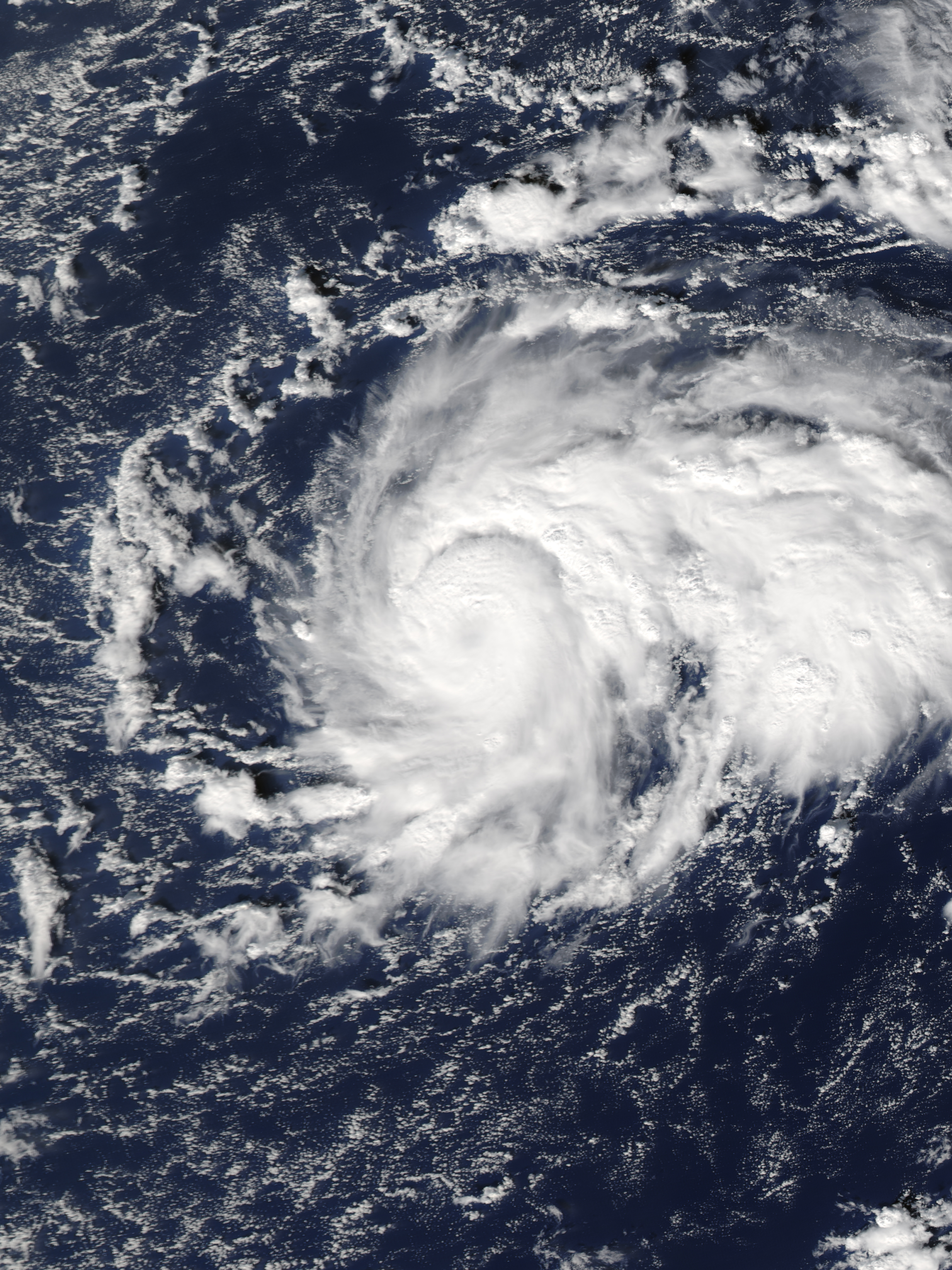 On December 19, 2010, a subtropical storm was located northwest of Hawaii, United States, which had an eye-like feature. The storm crossed the International Date Line and became Tropical Storm Omeka on the next day.